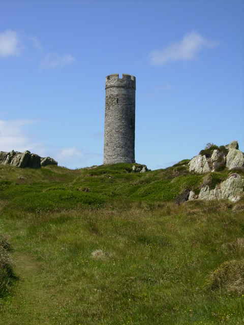 The Herring Tower on Langness Isle of Man The Herring Tower was built as a shipping marker in 1811. The tower is located on the Langness Peninsula, 2 Km south east of Castletown.